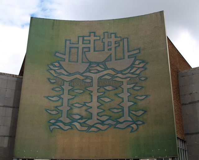 The Co-Op Mosaic This mosaic stands at the south western entrance to what was the CO-OP building in Hull City Centre. During its construction in the 1960s, I believe that three men were tragically killed after problems with a scaffolding collapse.